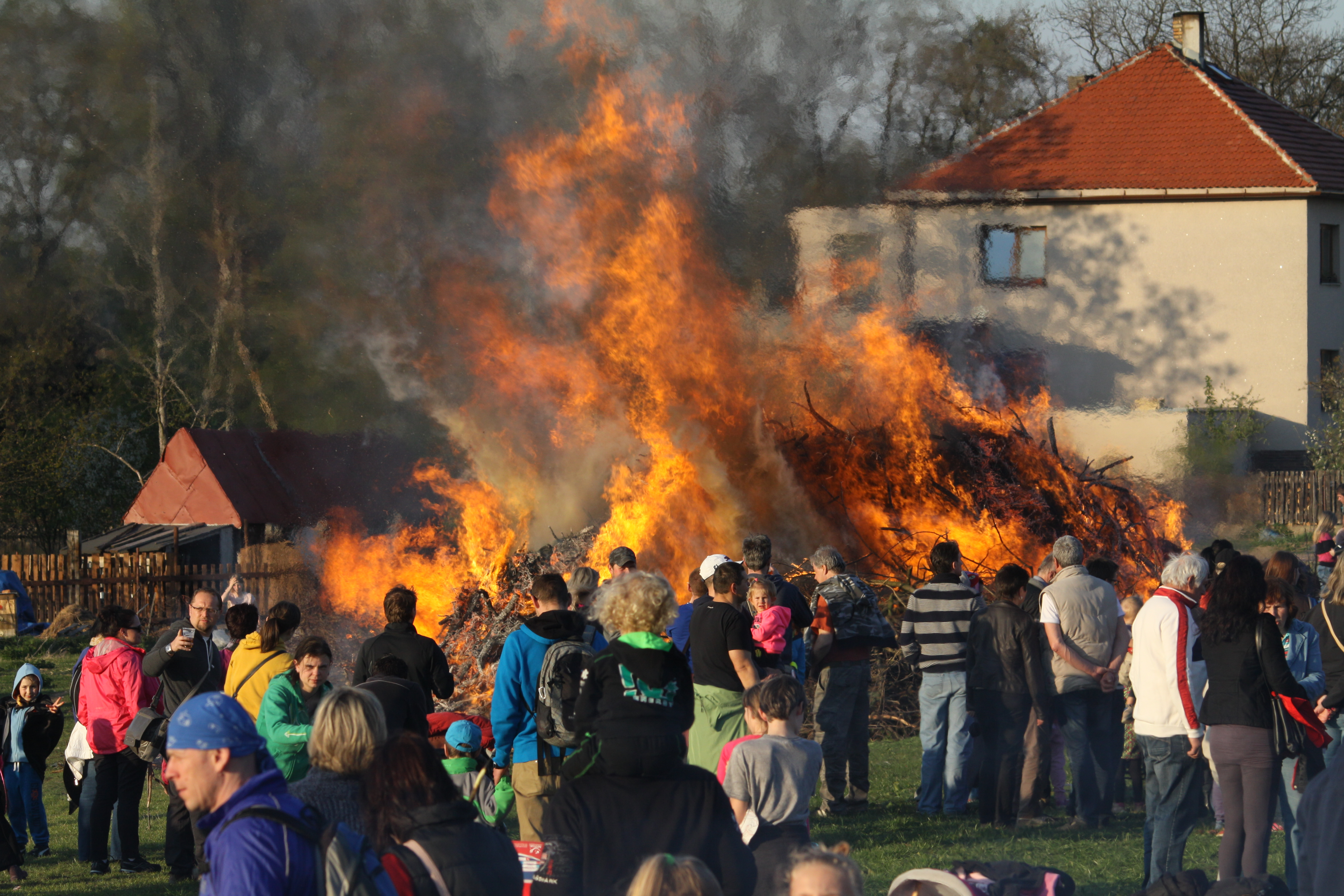 Walpurgis Night in Jesenice in Prague-West District, Czech Republic